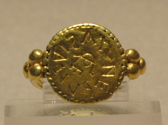 Signet ring bearing a monogram interpreted as “REGINE ARNEGUNDIS” (Queen Aregund). Gold, Merovingian Gaul, ca. 570. From the finery of Aregund, wife of Clotaire I (511–561). Found in 1959 in a tomb in Saint-Denis, France.